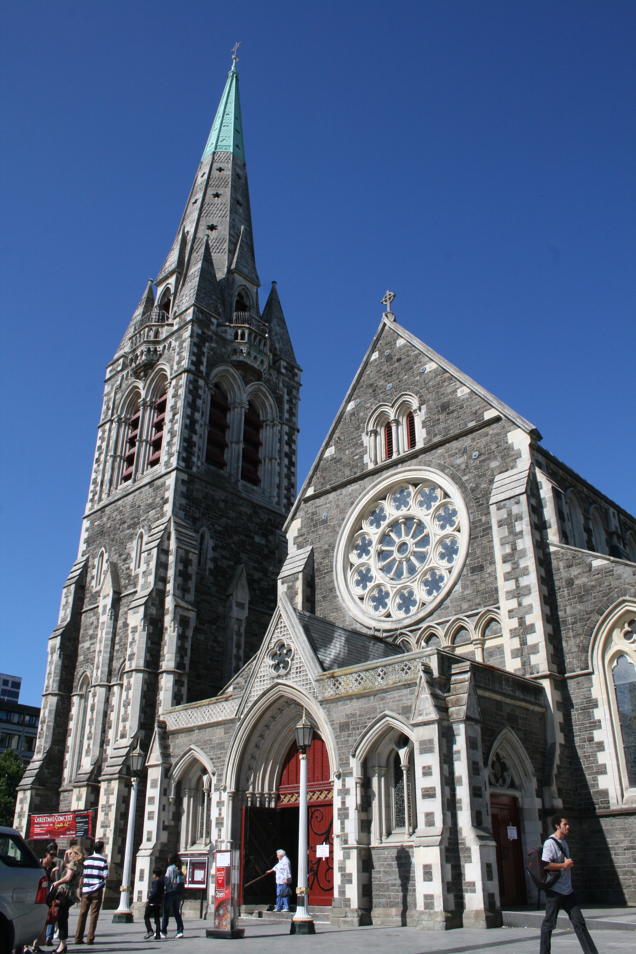 ChristChurch Cathedral, Christchurch, New Zealand